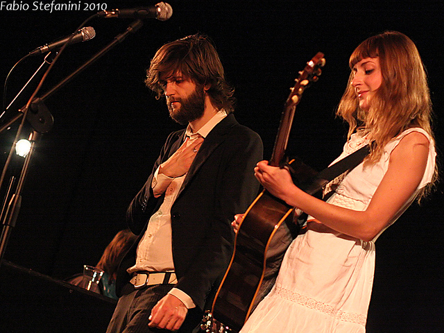 Italian songwriters Missincat and Dente in a concert in Milan on 2010